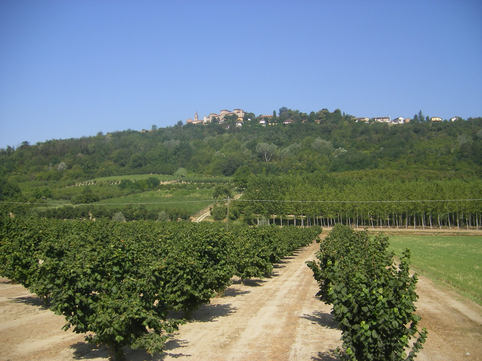 Magliano Alfieri as seen from the Tanaro Valley